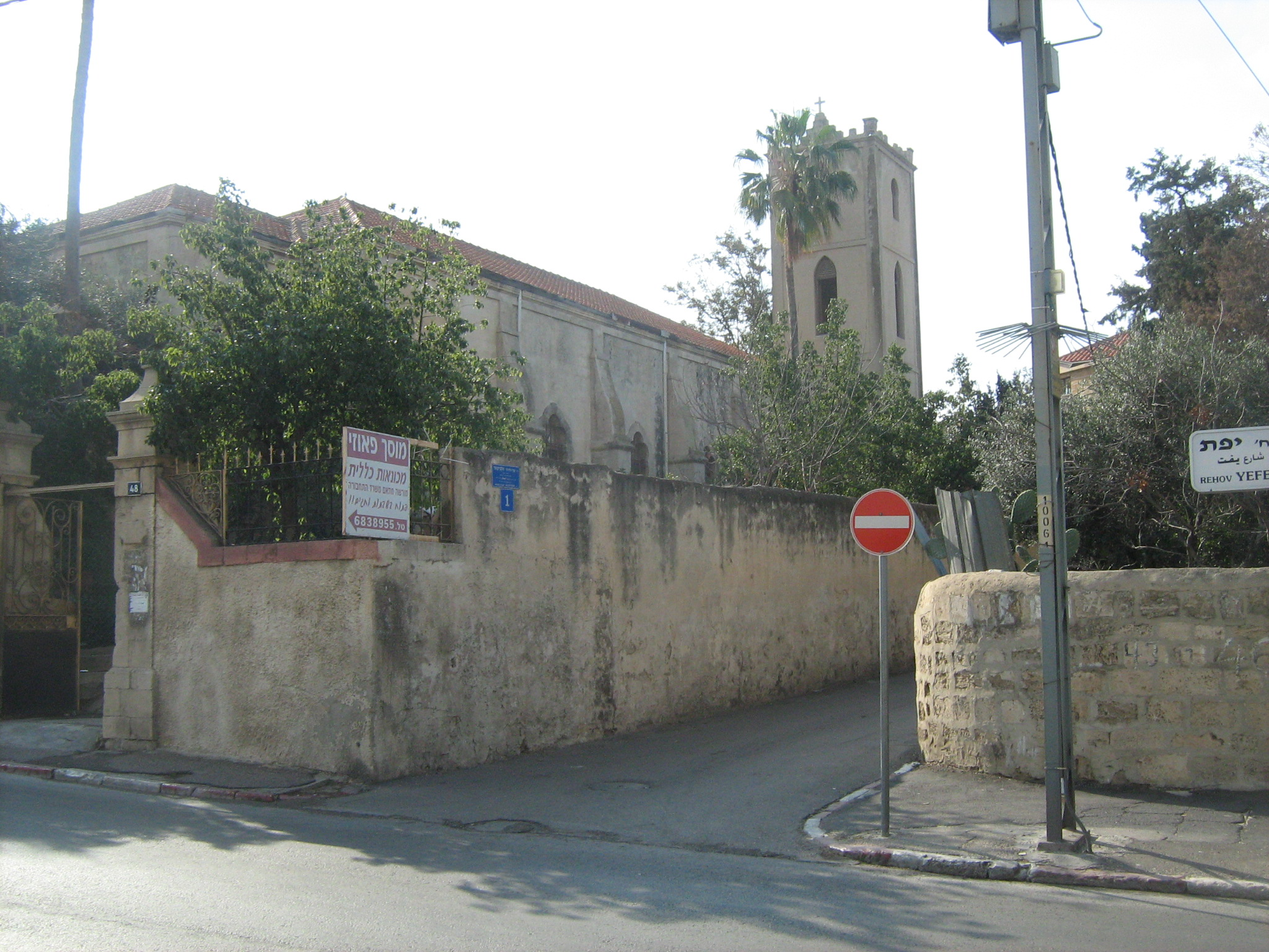 Jaffa, 48 Yefet street (corner of Yefet and Abdelrauf Albitar streets), The Presbyterian (not Anglican!) Saint Peter Church (founded by the Presbyterian Church of Scotland).